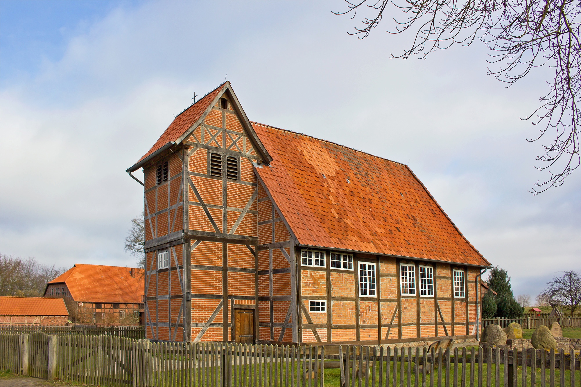 Church of the village Damnatz (district Lüchow-Dannenberg, northern Germany); built in 1617.